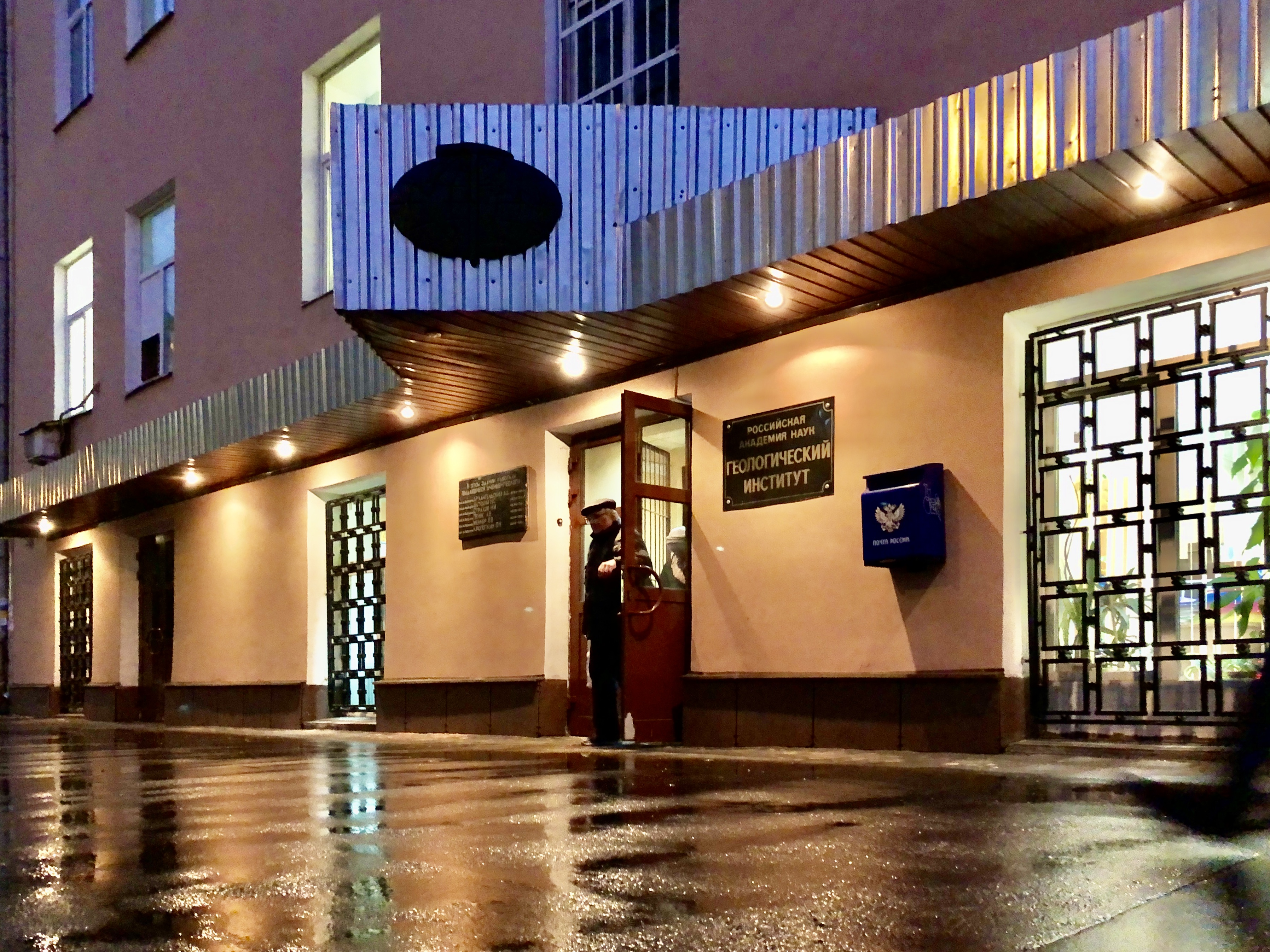 Moscow, Russia, December 2019